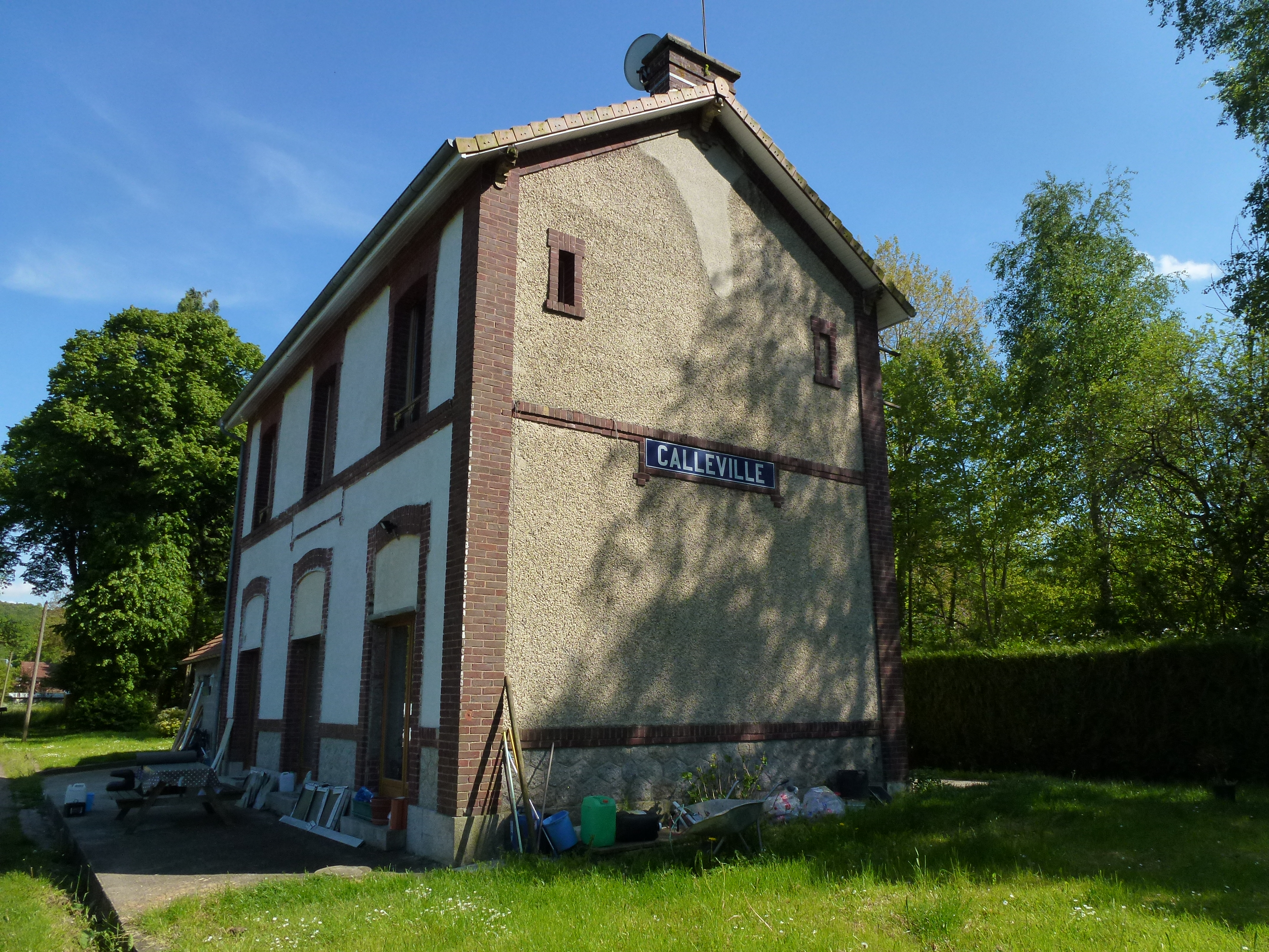 Voie verte Évreux-Vallée du Bec 09, ancienne gare de Calleville